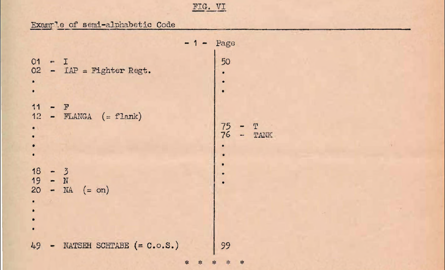 Figure VI of TICOM document I-19d Report on Interrogation of KONA 1 at Revin, France, June 1945. Image is of 3-Figure semi-alphabetic code book Other information Image is printed on orange blotting paper.Dianna has already agreed TICOM files before 1956 are in public domain. This is from 1945, is military in nature.